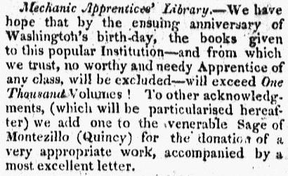 Newspaper item related to the Mechanic Apprentices Library, Boston, and donation by the "sage of Montezillo (Quincy) (i.e. John Adams).